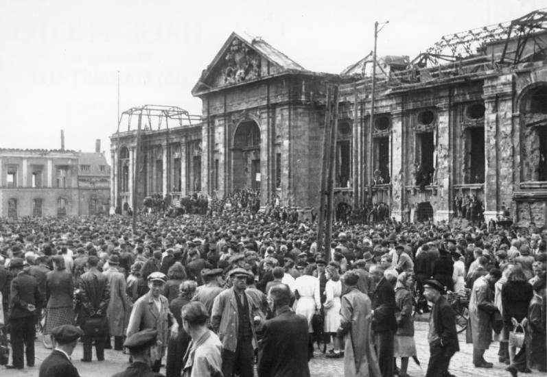 Darmstadt, Protest rally of the unions. Protest rally of the unions against arbitrary price increases. In a demonstration in Darmstadt on the square in front of the state museum on 1948-08-12, more than 10,000 working people protested against the latest price increases. Representatives of the unions gave speeches. The demonstration took place without incidents.